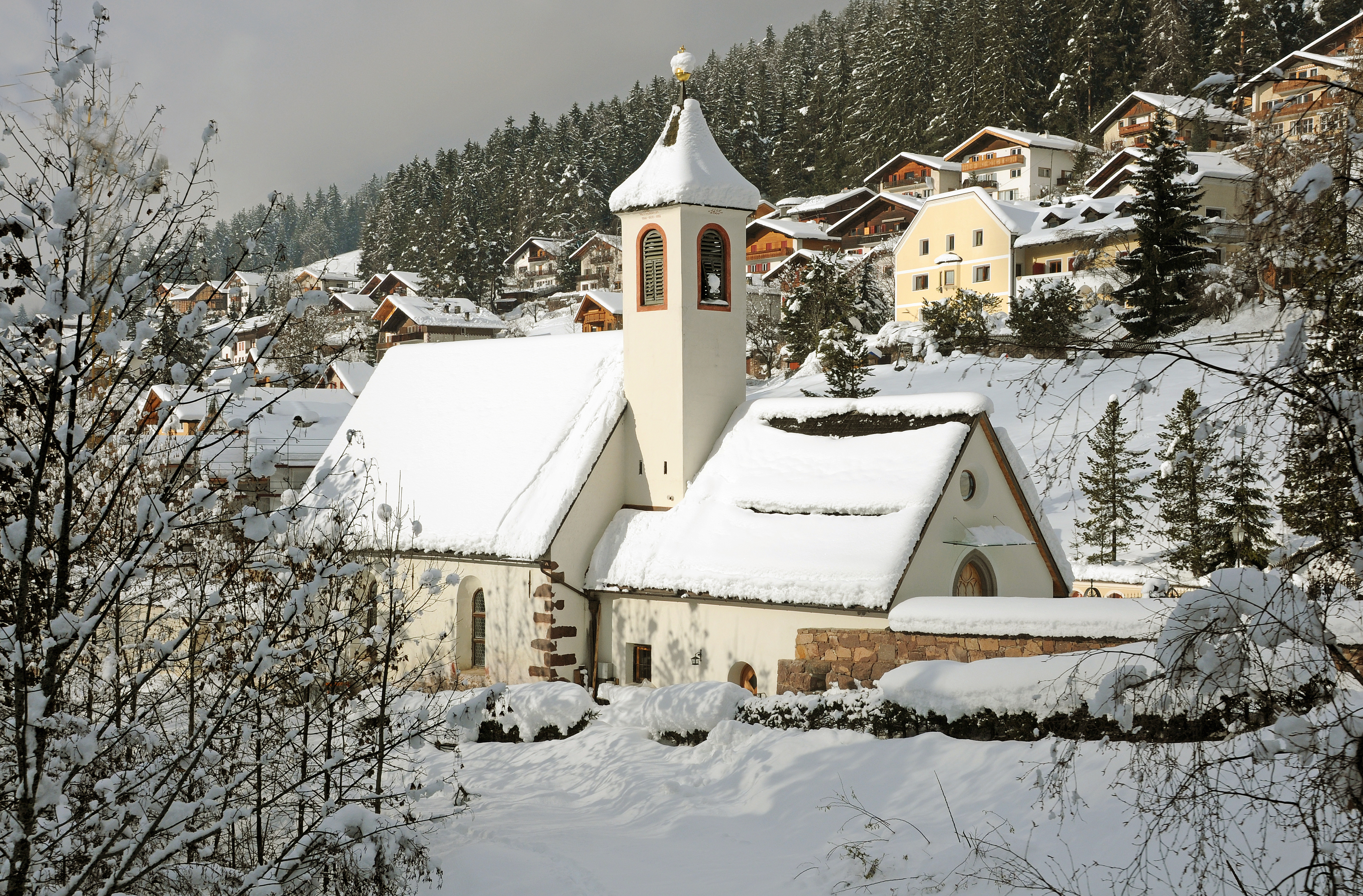 Saint Ann's church in the monumental cemetery of Urtijei